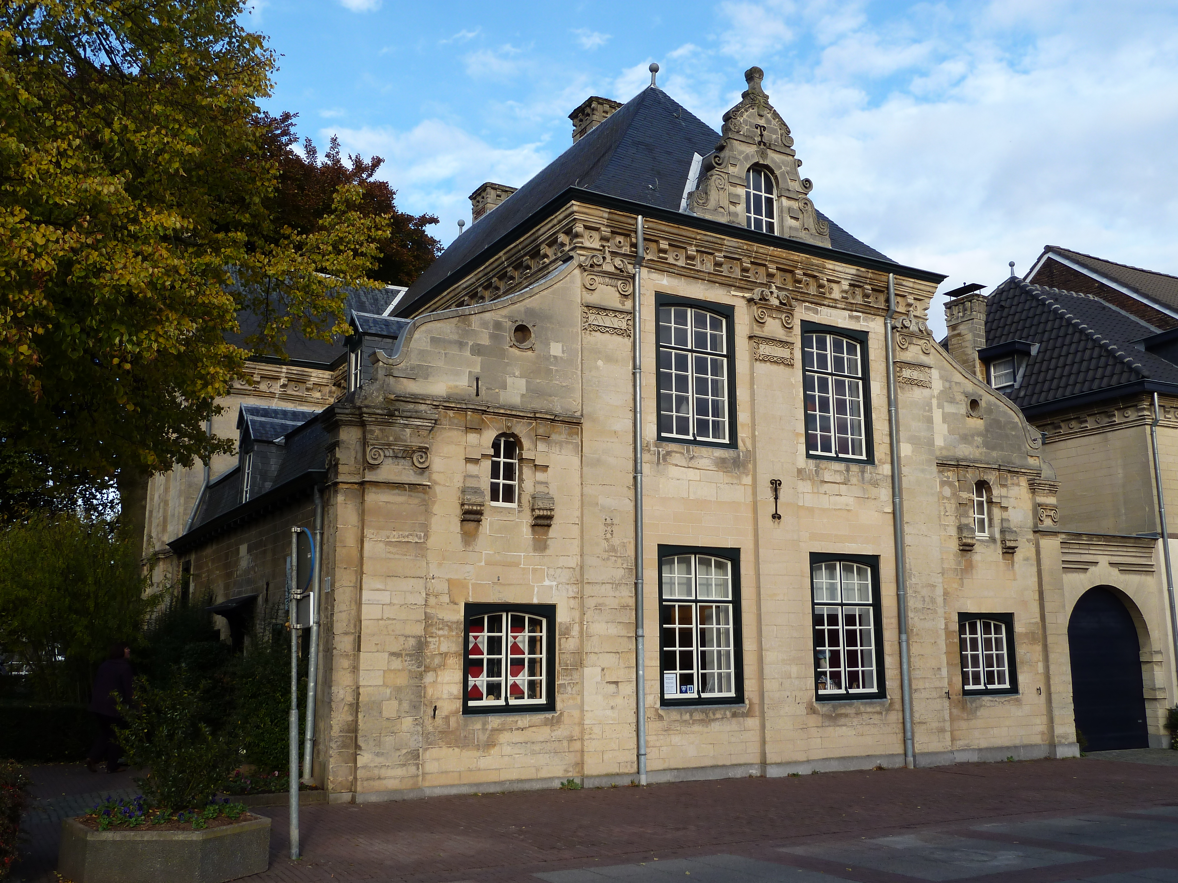 Theodoor Dorrenplein 5, Valkenburg, Limburg, the Netherlands